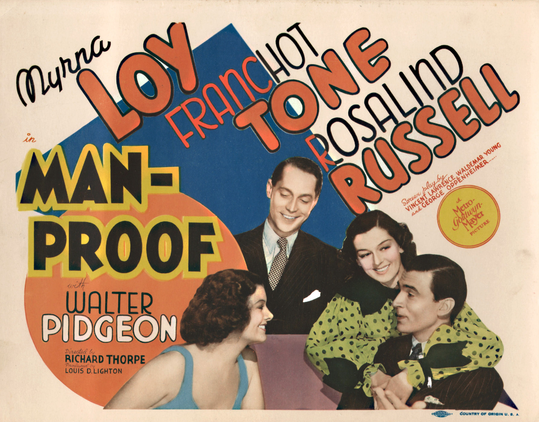 Lobby card for the 1938 film Man-Proof. There are no copyright marks on the card. At lower right is an oval-shaped mark indicating the card was printed at a union print shop and Country of origin USA.